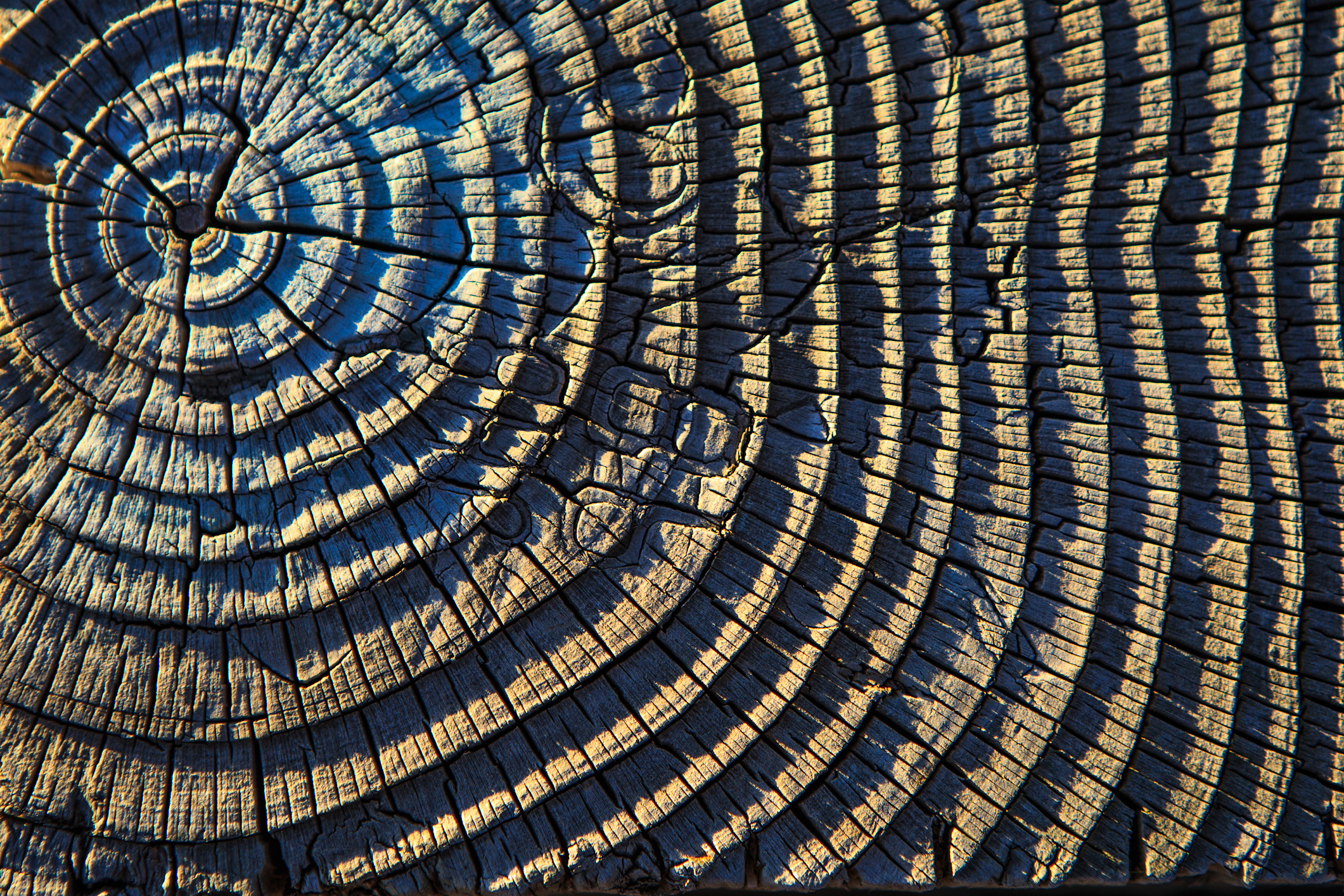 2012-10 US Tour 36 - Roadtrip to L.A.